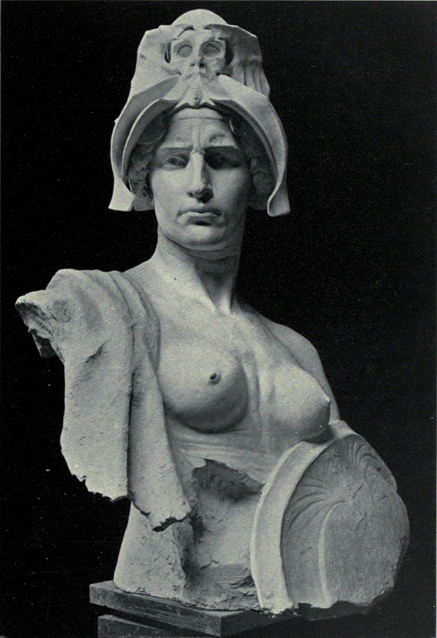 War